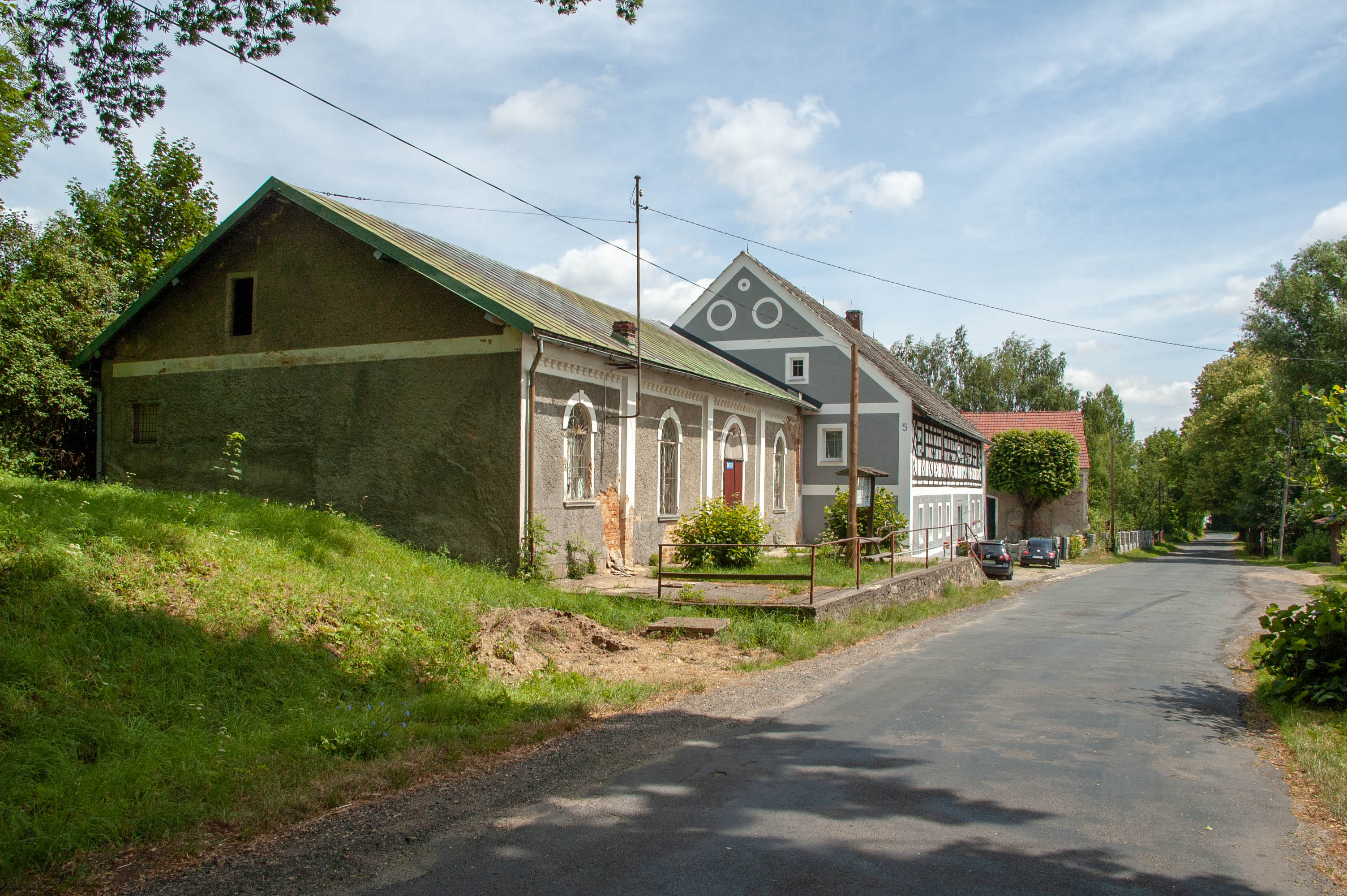 Half-timbered house in Jastrowice, Lower Silesian Voivodeship, Poland.